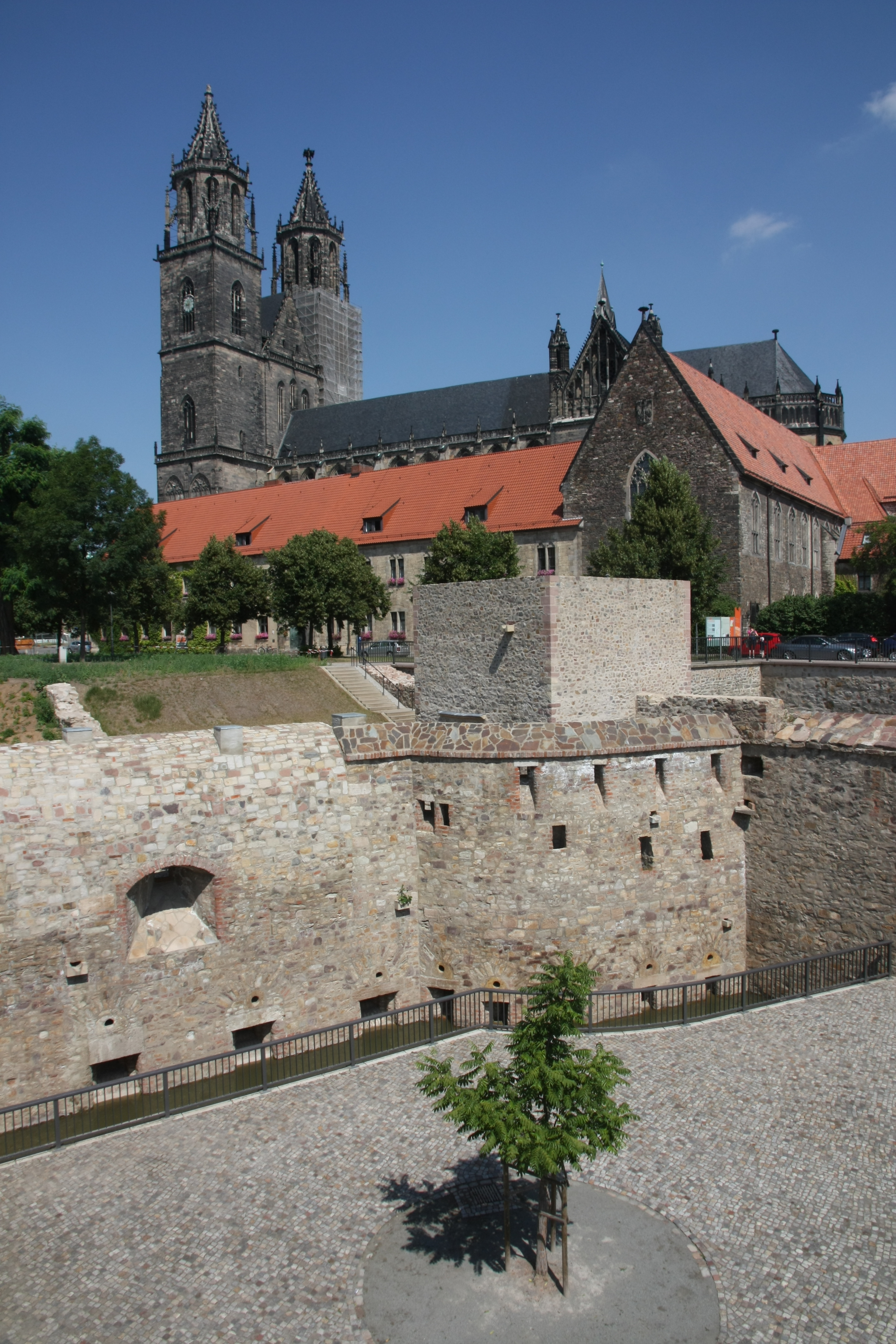 restaurated Bastion Cleve with Magdeburg Cathedral in background